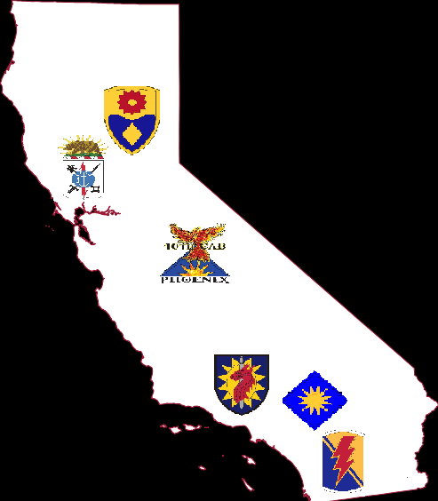 This California map displays the unit locations of major California Army National Guard units via the unit's crest.